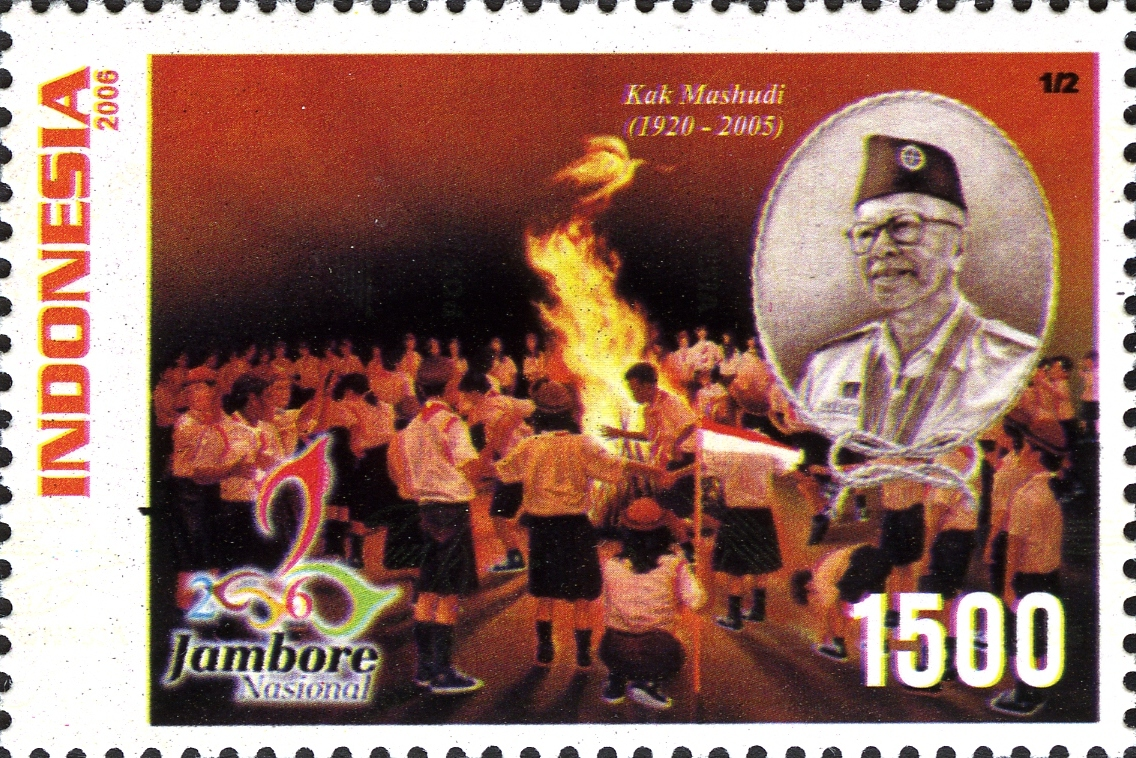 Stamps of Indonesia